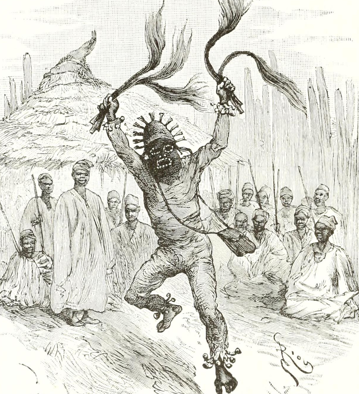 A cropped repost of the file:Ridpath's Universal history - an account of the origin, primitive condition and ethnic development of the great races of mankind, and of the principal events in the evolution and progress of the (14770252022).jpg